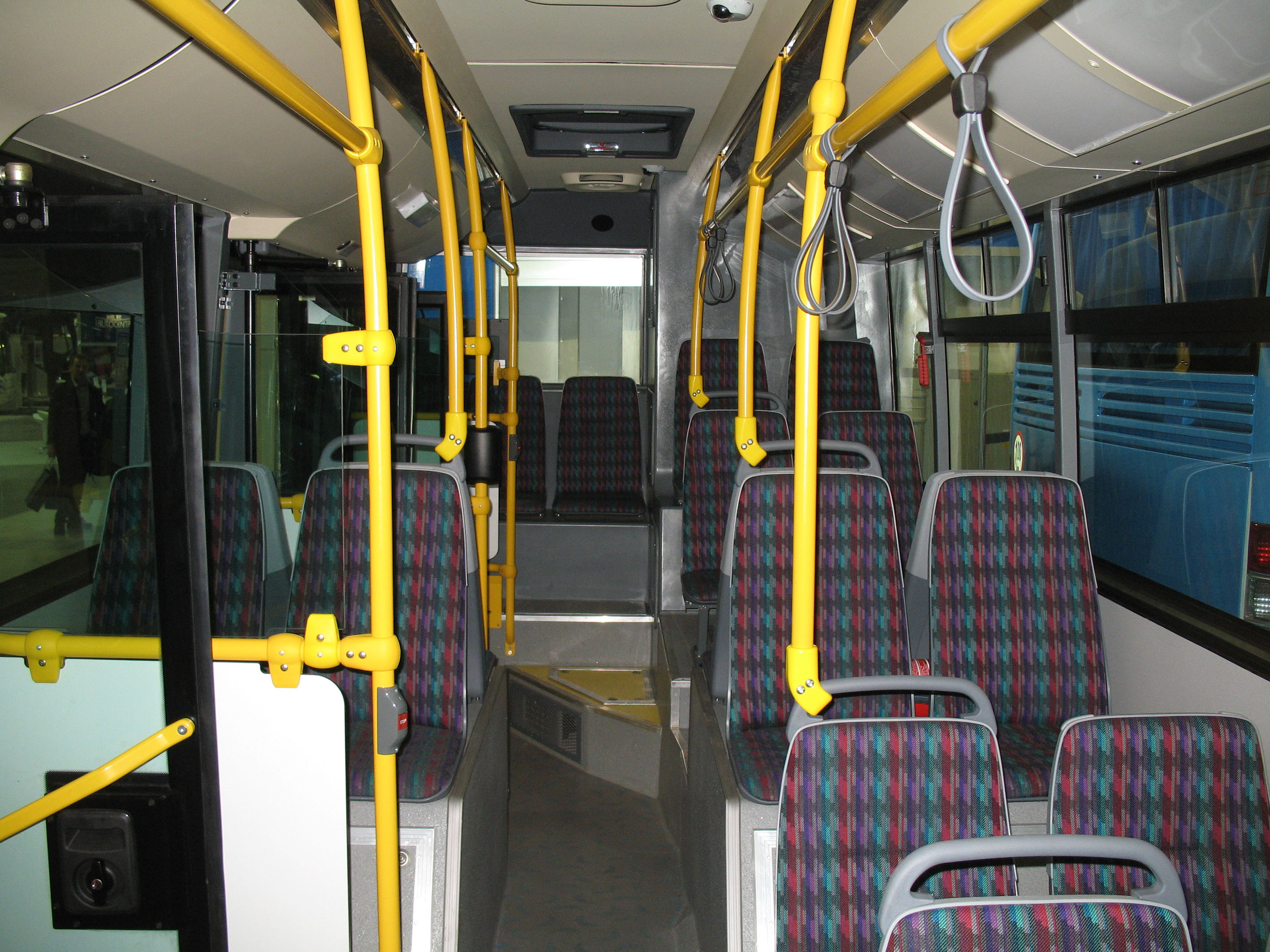 SOR NB18 city bus (reg. E 1852) in Kielce, Poland. Built 2011. Transexpo 2011.